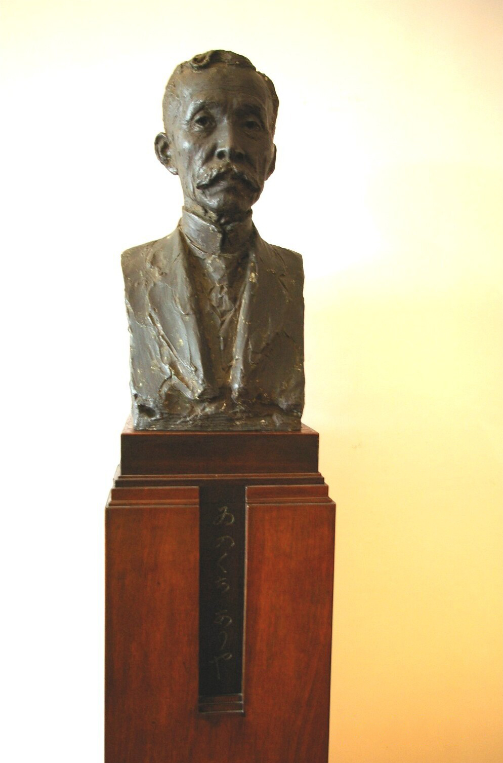 Taken in University Tokyo.